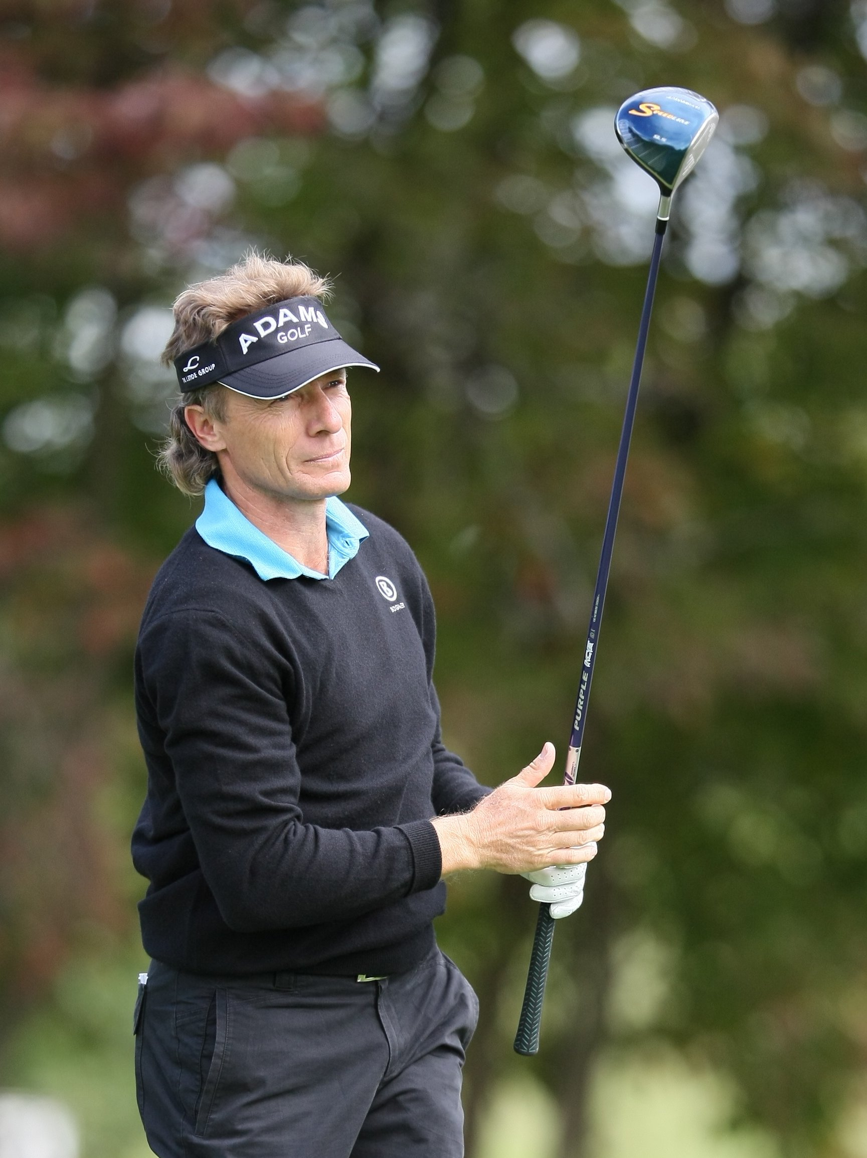 Constellation Energy Senior Players Championship Pro-Am held at Baltimore Country Club/Five Farms (East Course) on September 30, 2009 in Timonium, Maryland